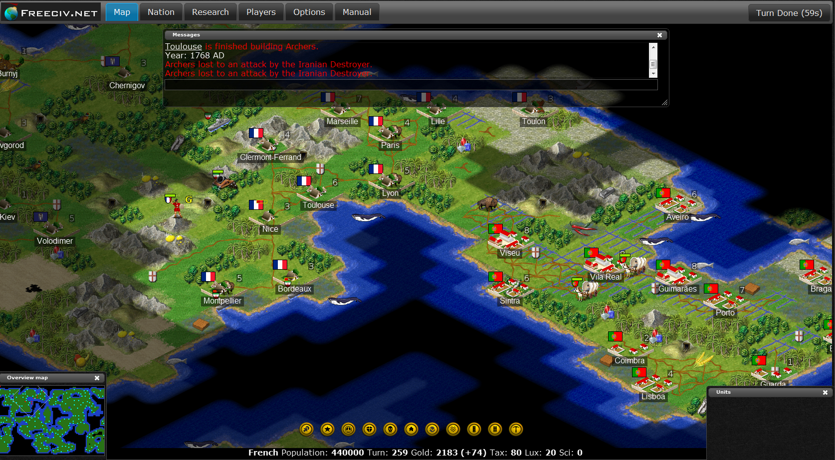 Screenshot of a multiplayer game playing , which is an open source turn-based strategy game.